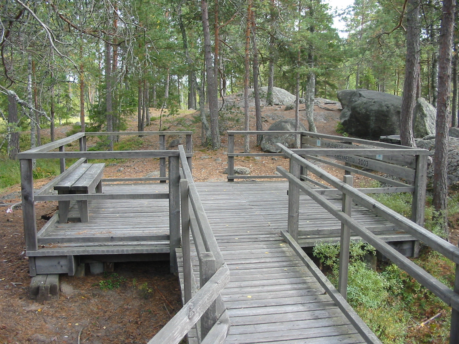 Facilities of Kurjenrahka National Park, Finland Proper, at Kuhankuono boundary stone